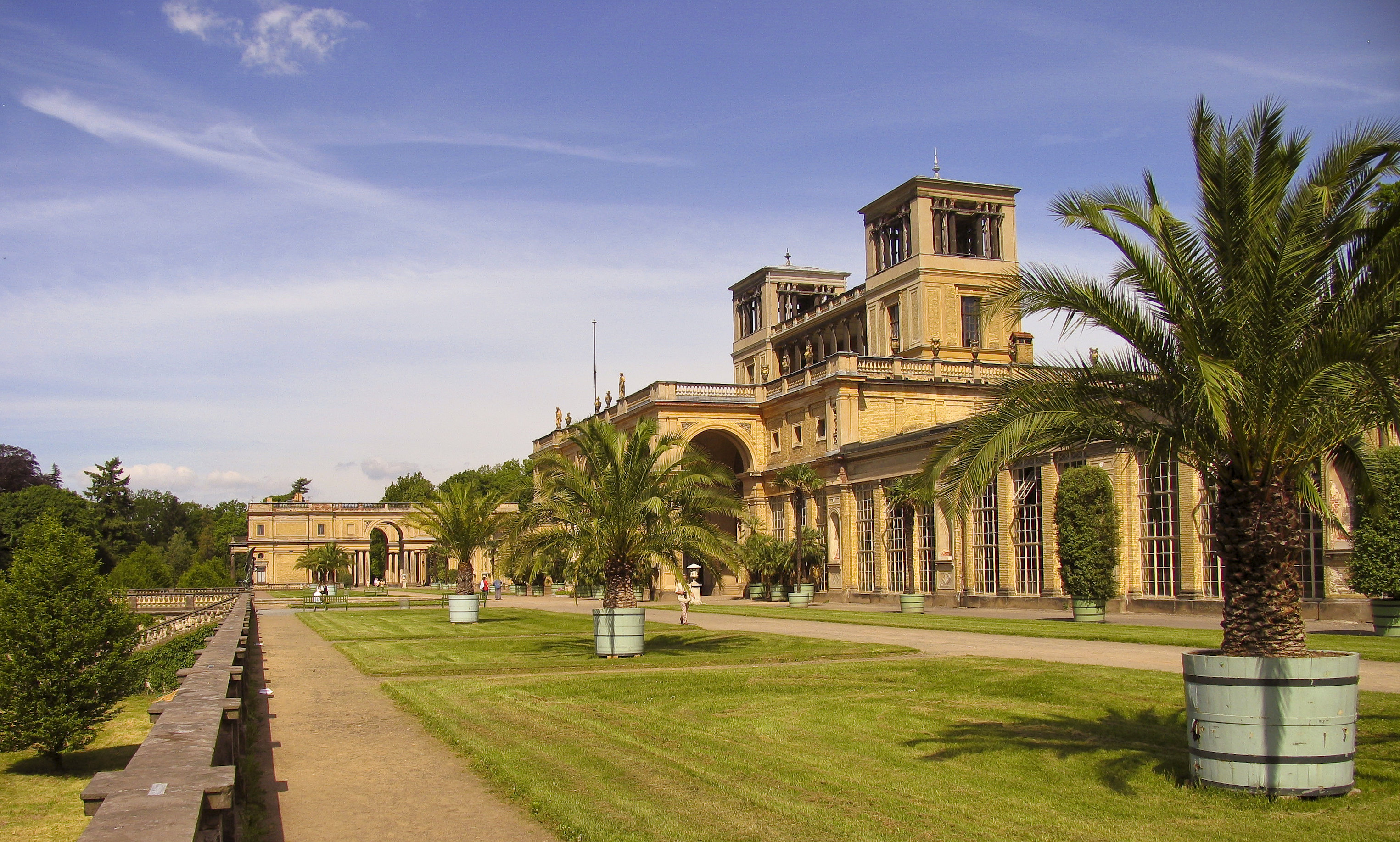 Orangery Palace, Potsdam, Germany